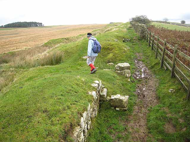 Milecastle 33 on Hadrian's Wall One of the Milecastles on Hadrian's Wall Hadrians_Wall. Hadrians Wall National Trail which runs 135 km from Bowness-on-Solway to Wallsend follows the liine of the Wall for much of the way.